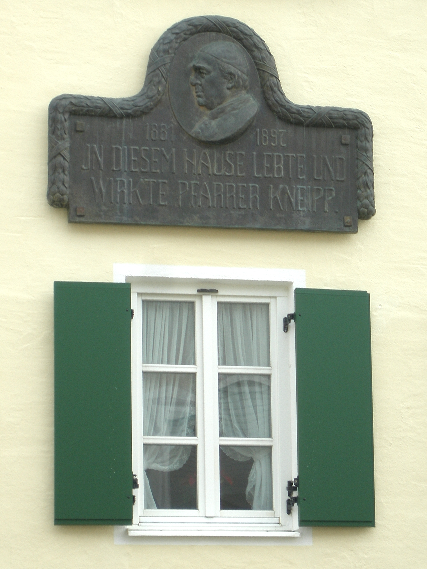 Memorial plaque, Sebastian Kneipp, Bad Wörishofen, Germany